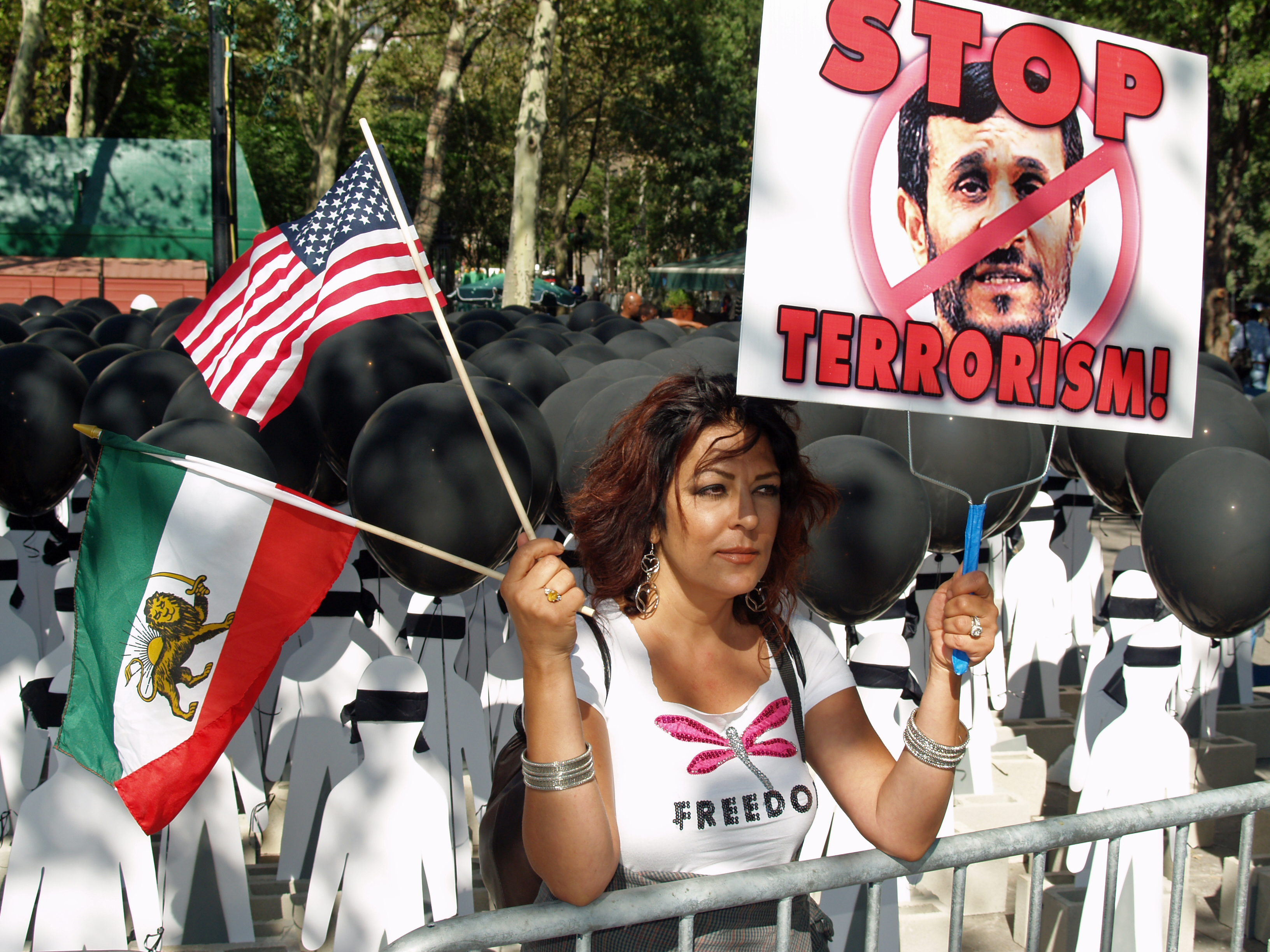 Protests outside of the United Nations in New York City when Mahmoud Ahmadinejad addressed the governing body at the end of his first term as President of Iran.